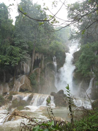 Kuang Si Fall is seen as the most famous landscape in Luang Prabang province. This is located in Ban Thapene.